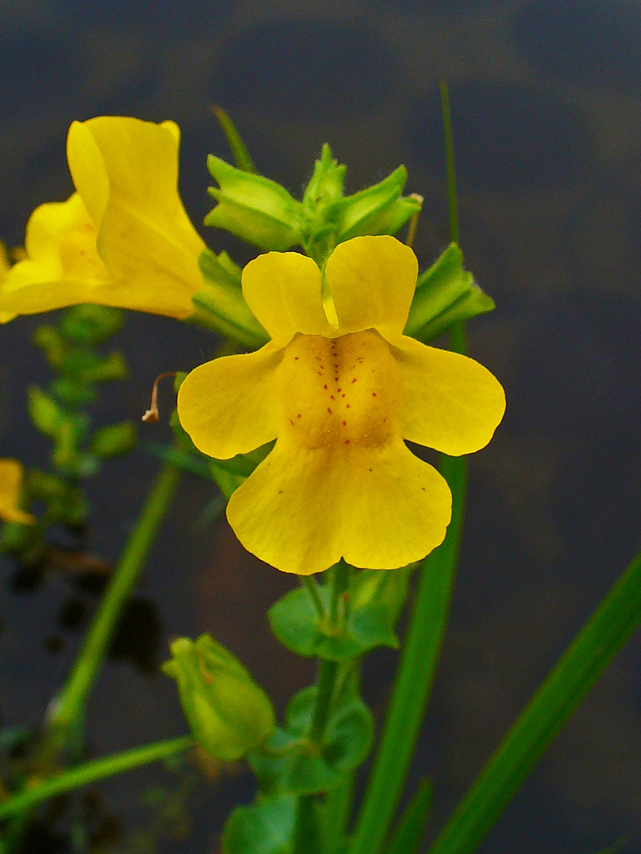 Mimulus guttatus, Phrymaceae, Common Monkey-flower, flower; Karlsruhe, Germany.